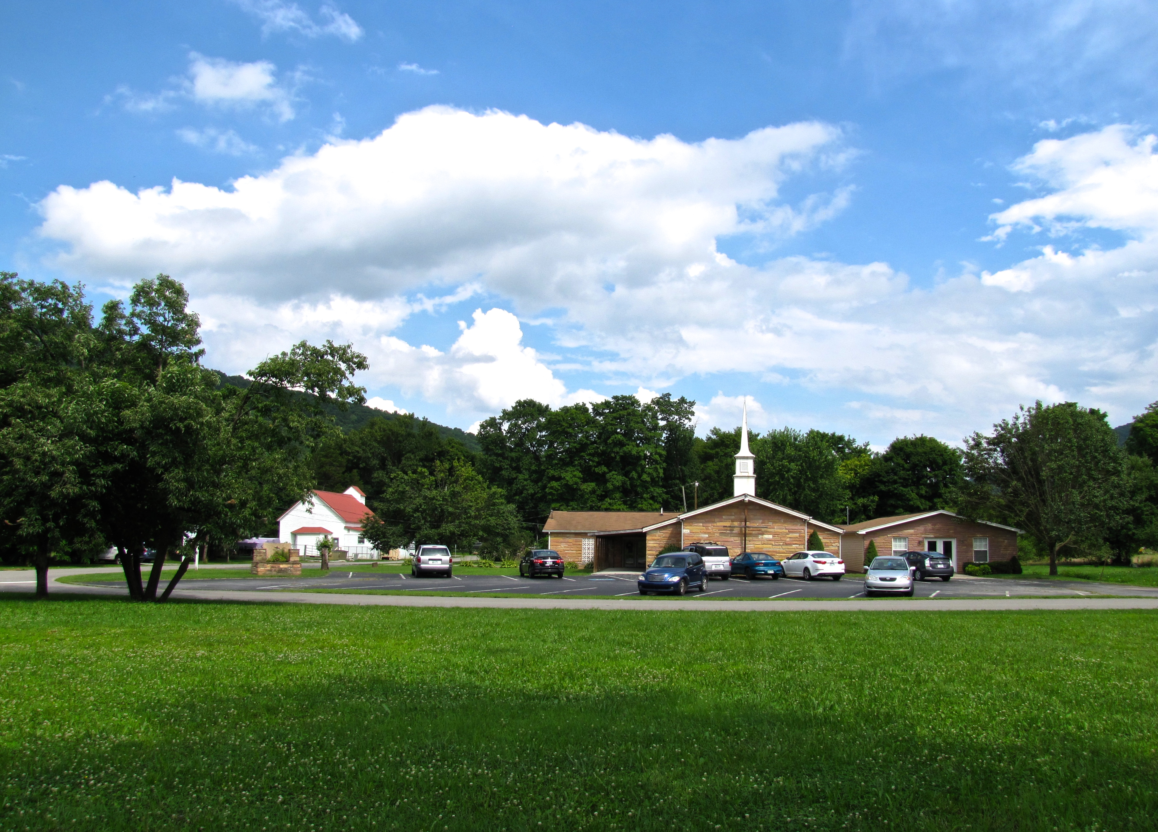 Church along Adams Street in Crab Orchard, Tennessee, United States.